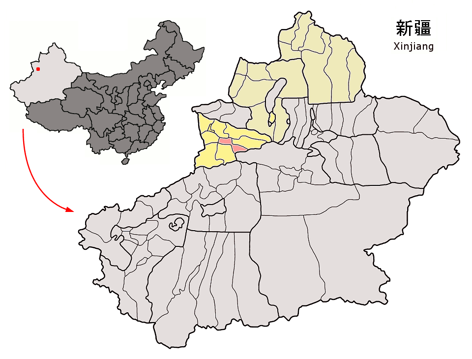 Location of Gongliu County (pink) and Ili Prefecture (yellow: subdivisions under direct administration of Ili Prefecture, ecru: subdivisions under administration of Tacheng and Altay Prefectures) within Xinjiang autonomous region of China Map drawn in september 2007 using various sources, mainly : Xinjiang Uygur autonomous region administrative regions GIS data: 1:1M, County level, 1990 Xinjiang Counties map from